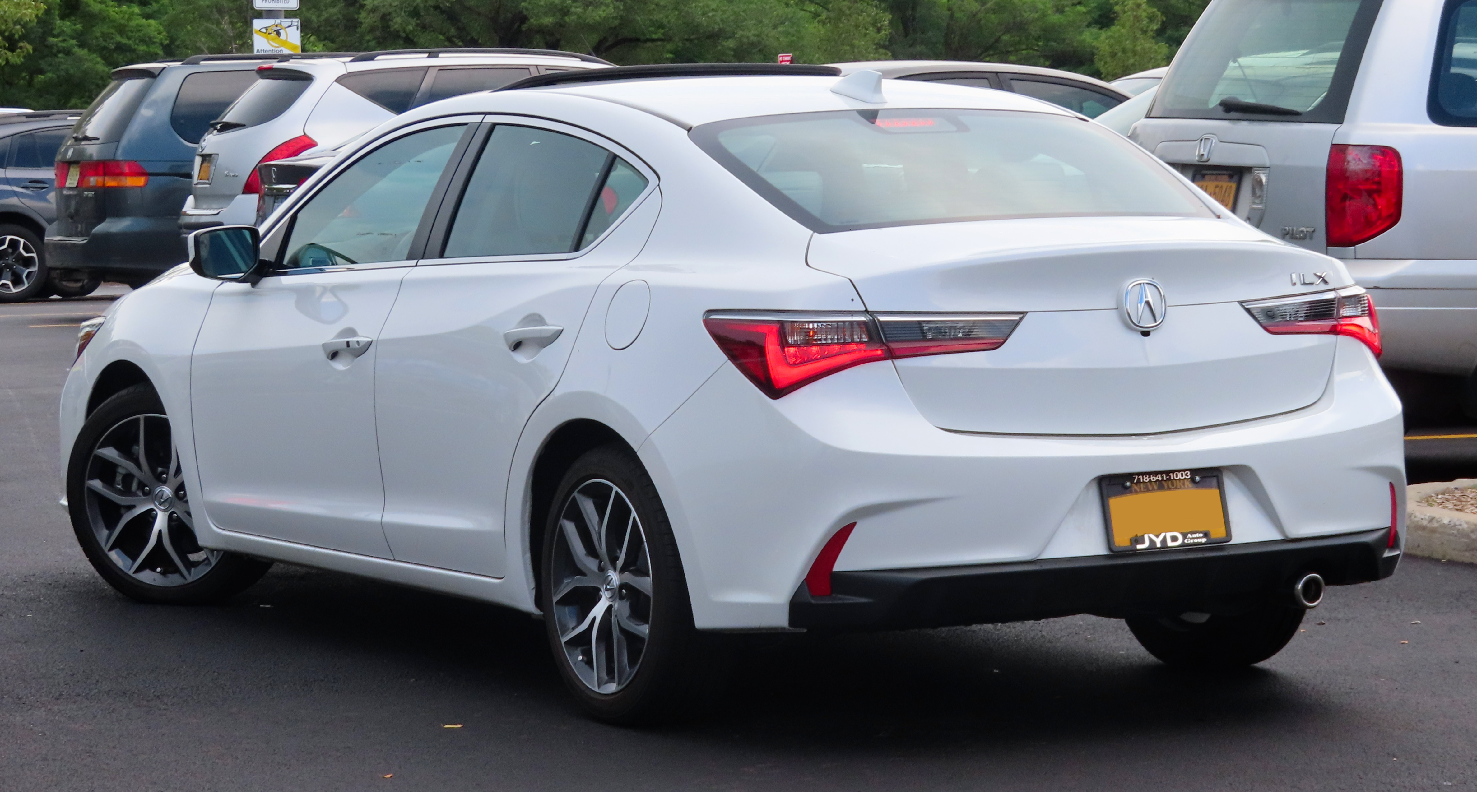 A 2019 Acura ILX photographed in College Point, Queens, New York, USA